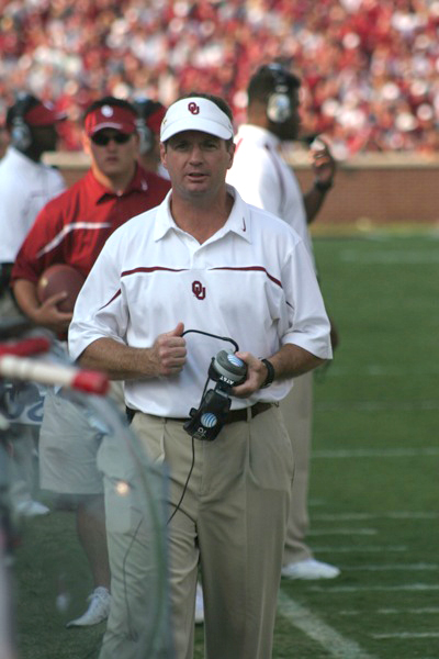 Bob Stoops, football head coach at the University of Oklahoma